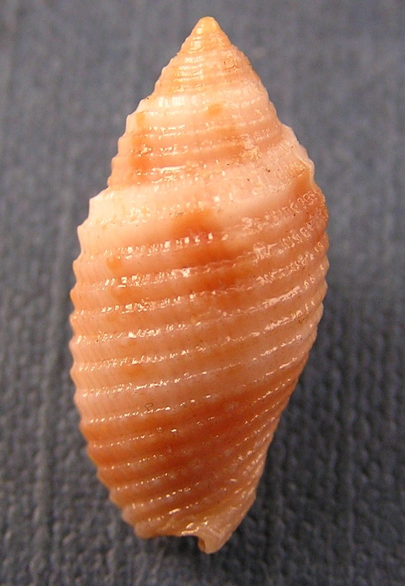 Tiarella scabricula (Linnaeus, 1767) (synonym: Pterygia scabricula C. Linnaeus, 1758), a sea snail from the family Mitridae; Philippines